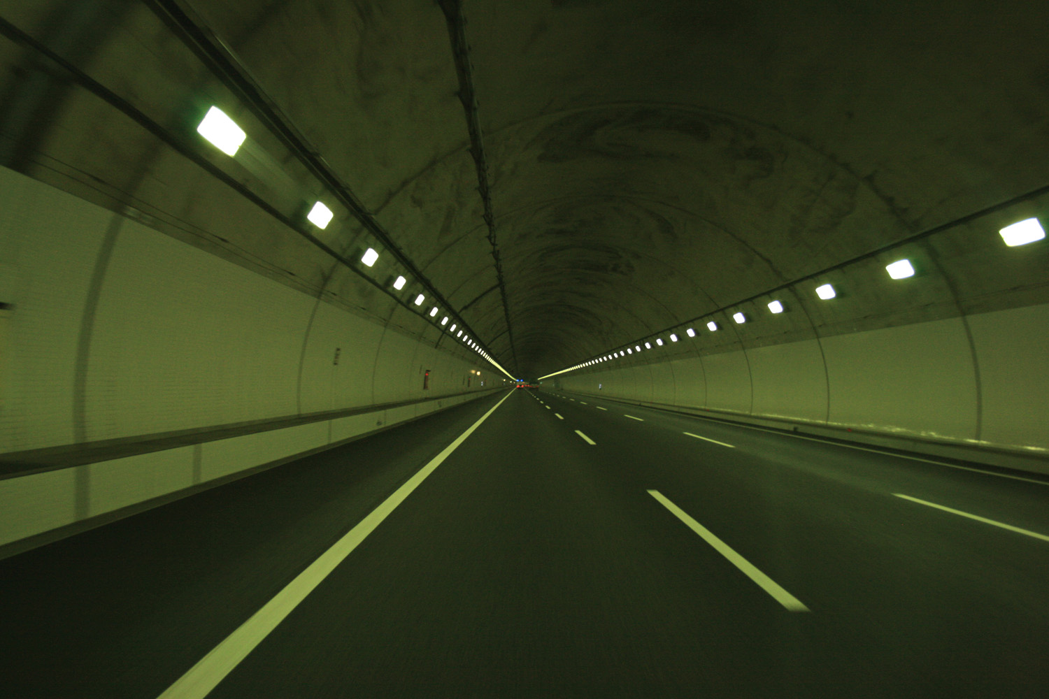 Suzuka tunnel of Shin-Meishin Expwy